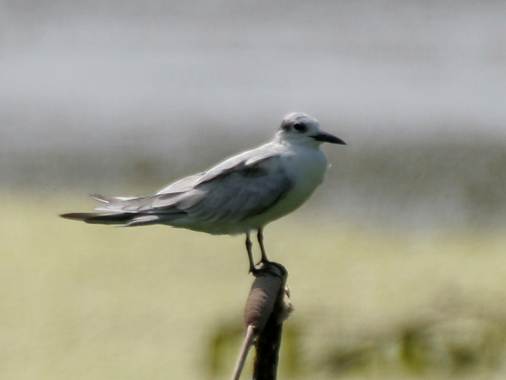 Whiskered Tern Chlidonias hybridus in Kolleru, Andhra Pradesh, India.